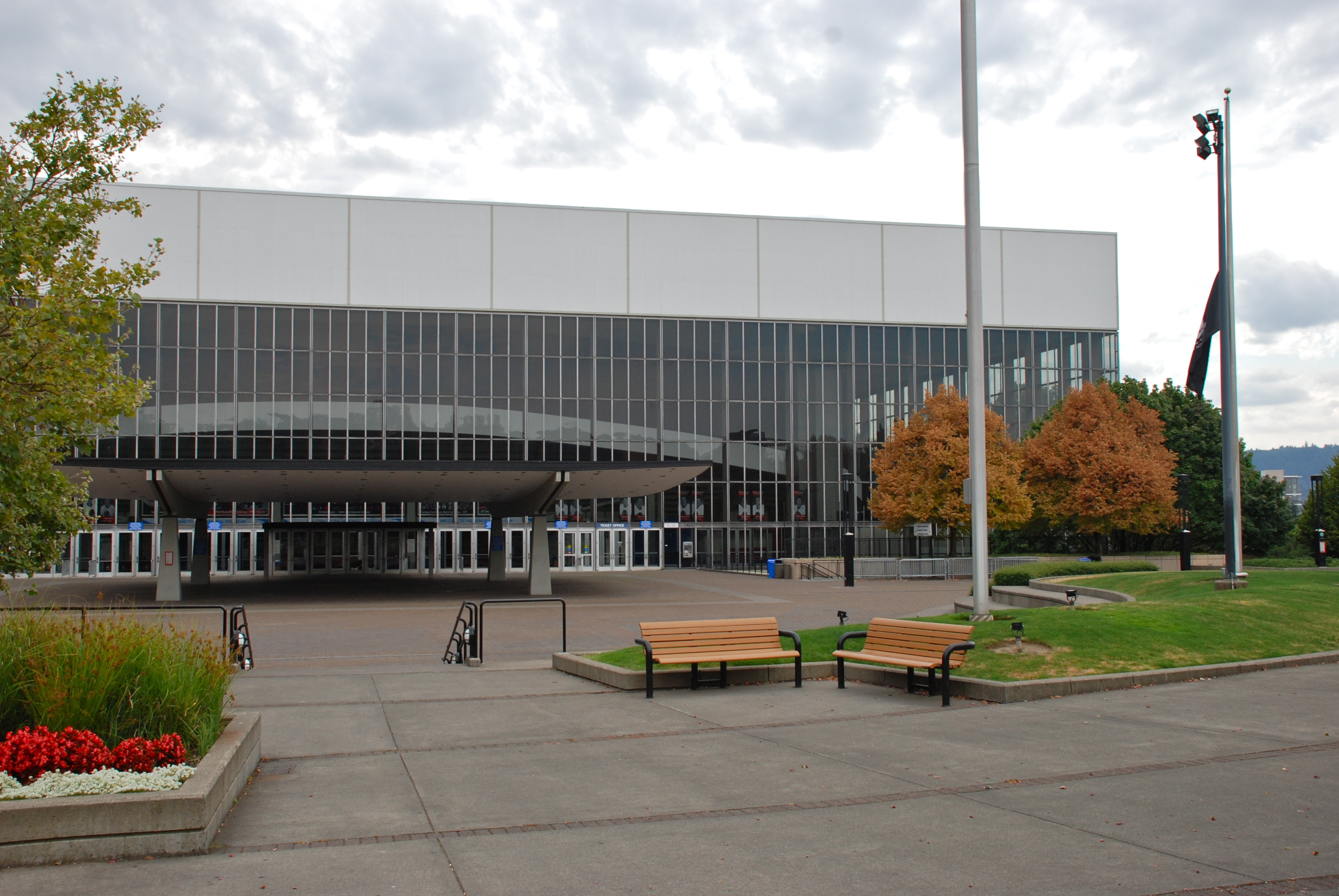 The 1960-built Memorial Coliseum (renamed Veterans Memorial Coliseum in 2011), in Portland, Oregon, is listed on the U.S. National Register of Historic Places. This view is of the entrance, on the building's northeast side.